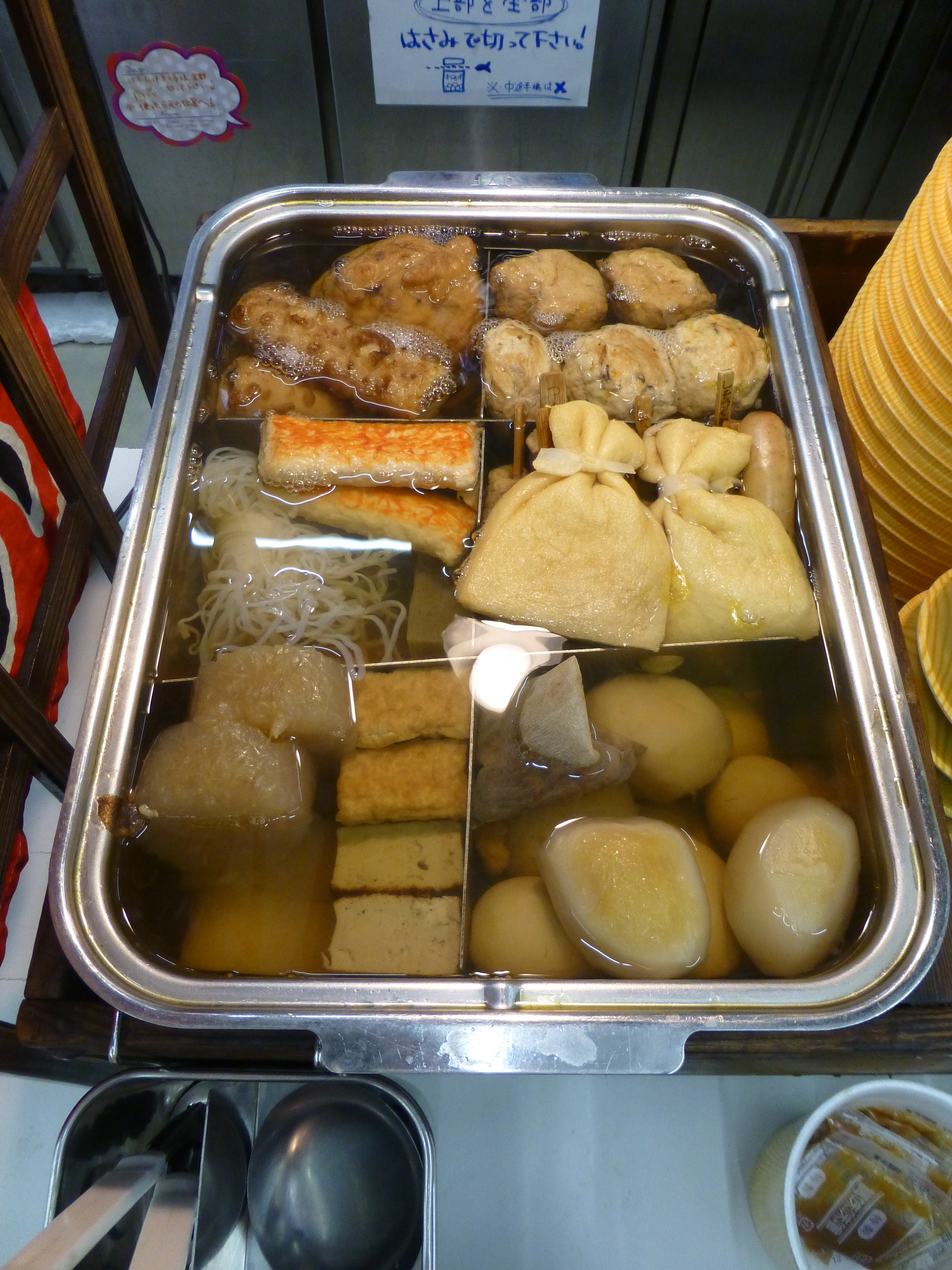 Hot fast food supply in a Japanese 7-11 supermarket.